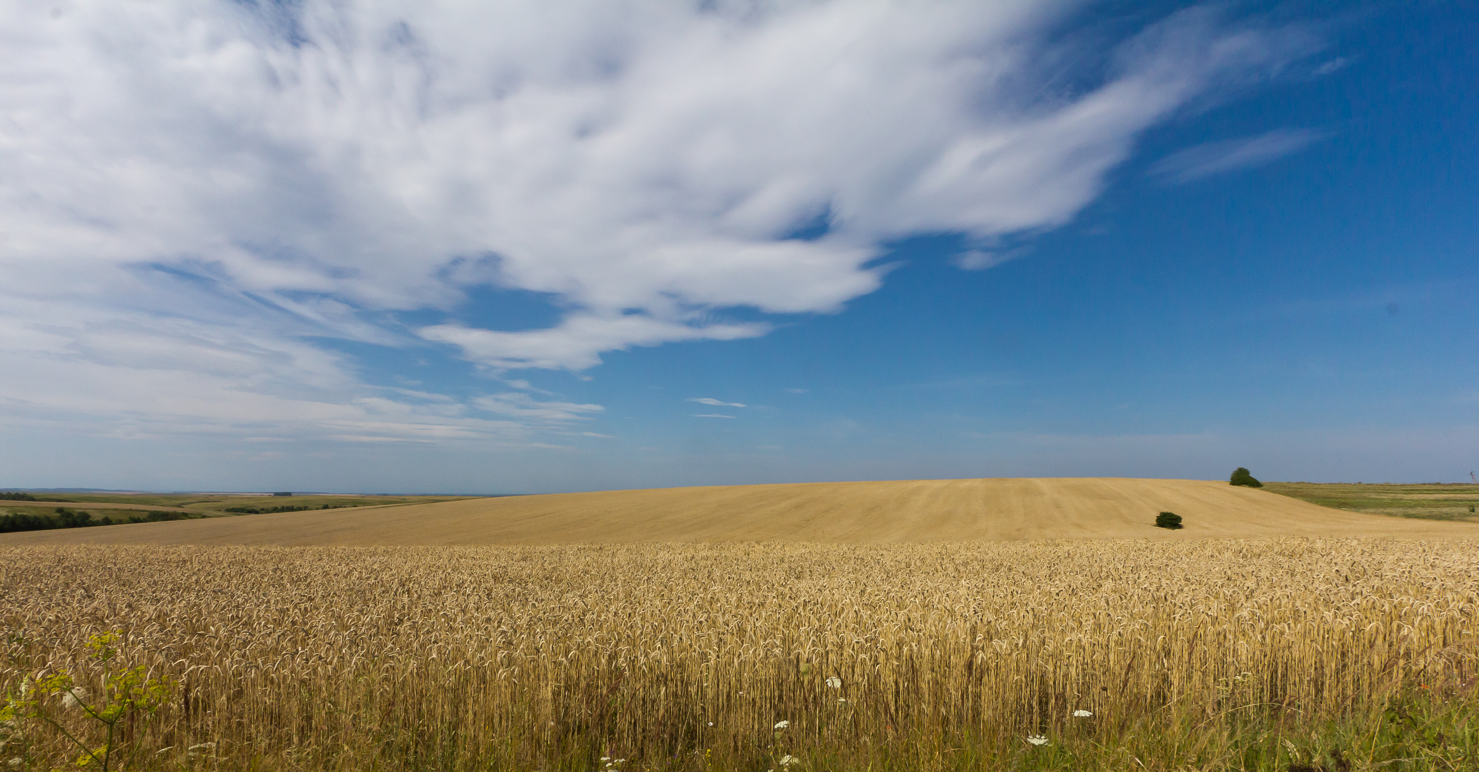 Wheat fields in midsummer (August) in Ukraine, Oblast Lviv